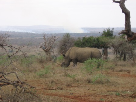 White Rhinocerous grazing in the Hluhluwe-Imfolosi Park, South Africa